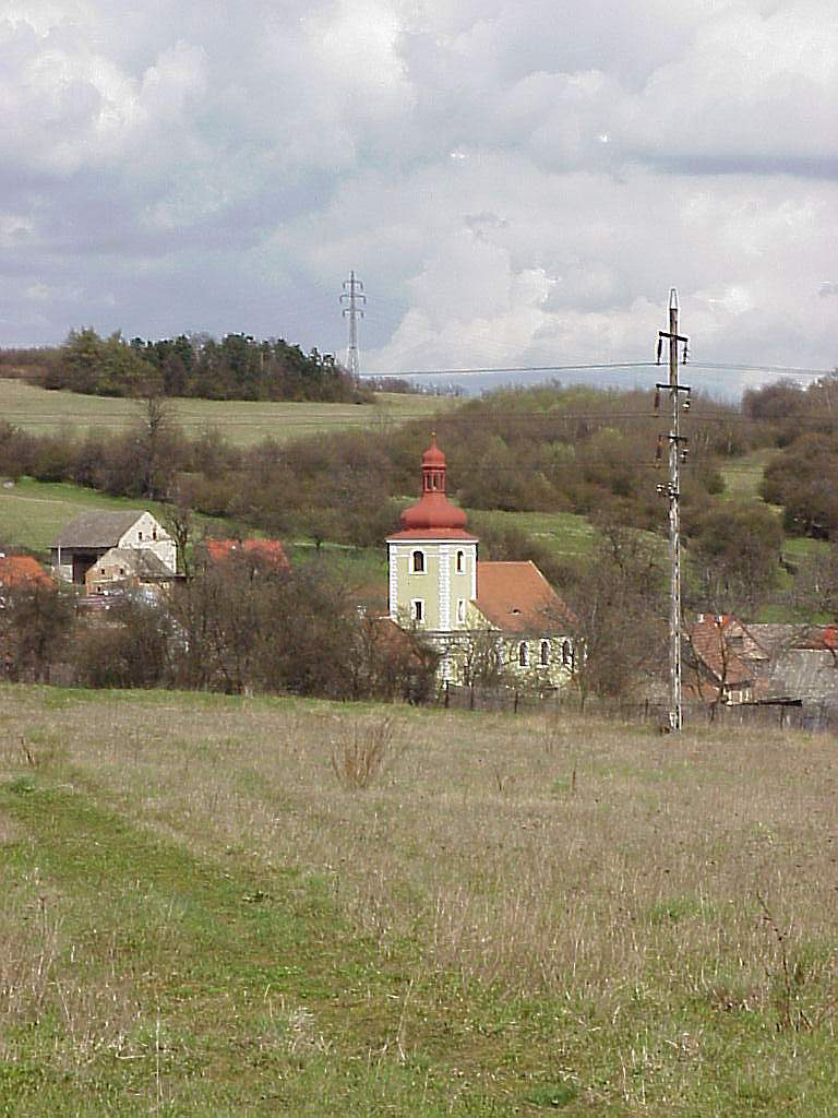 Village of Stebno (Ústí nad Labem District) with church of SS Simon and Jude as seen from the southwest.